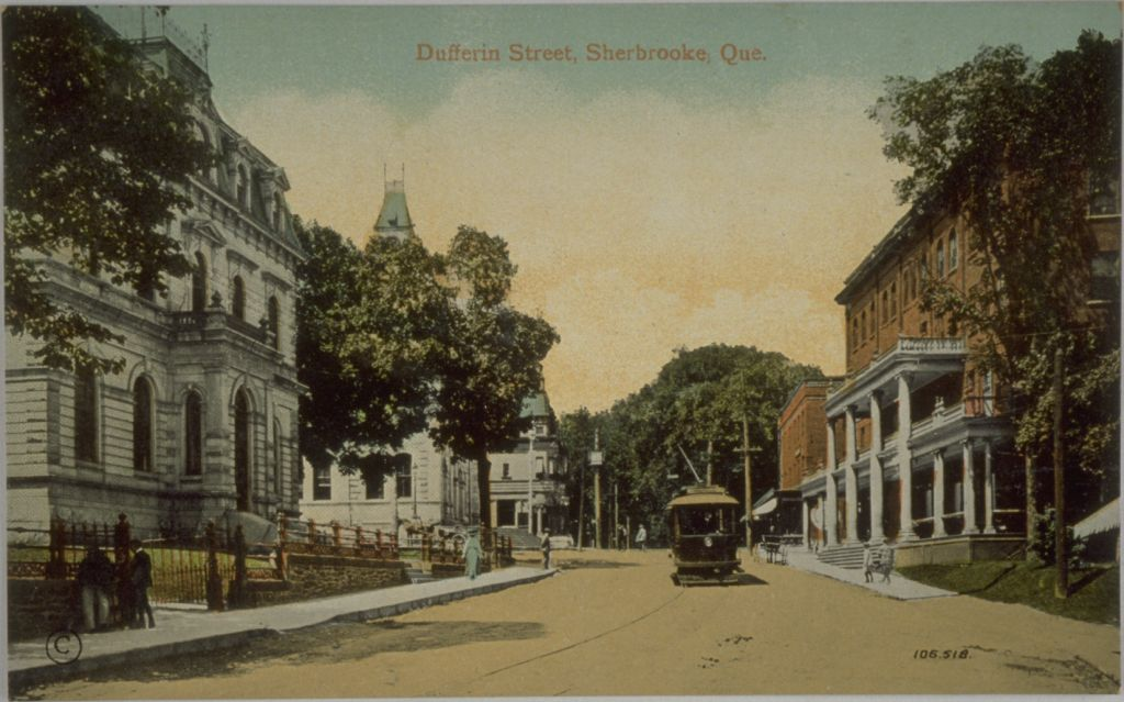 Dufferin Street, Sherbrooke, carte postale, E.P. Charlton & Co.